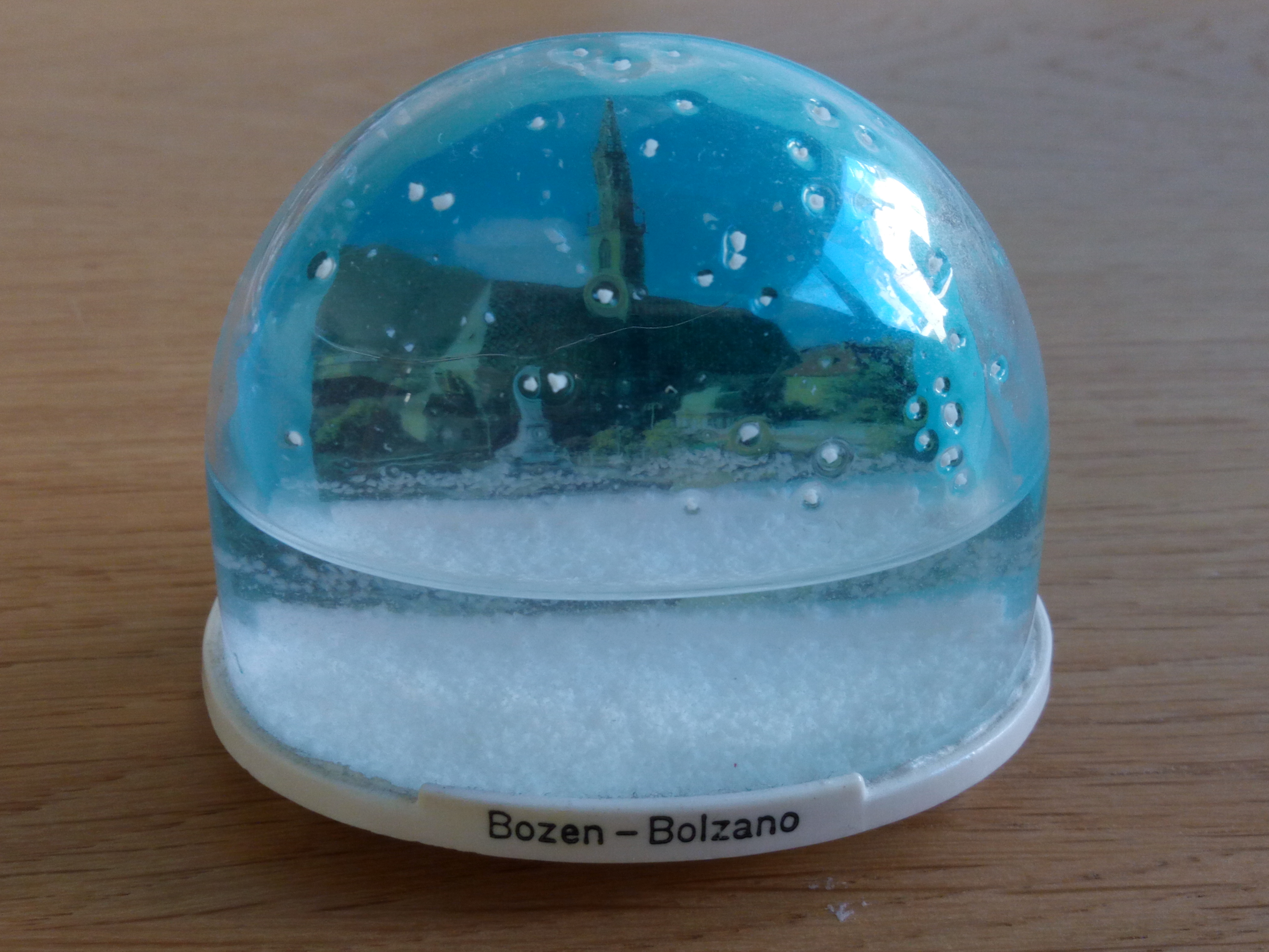 Snow Globe, showing Bozen-Bolzano's Cathedral Church